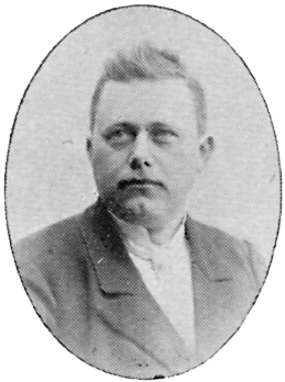 Image scanned from the book "Svenskt Porträttgalleri XX - Arkitekter, Bildhuggare, Målare m.fl. " ("Swedish Portrait Gallery XX - Architects, Sculptors, Painters, ") published 1901